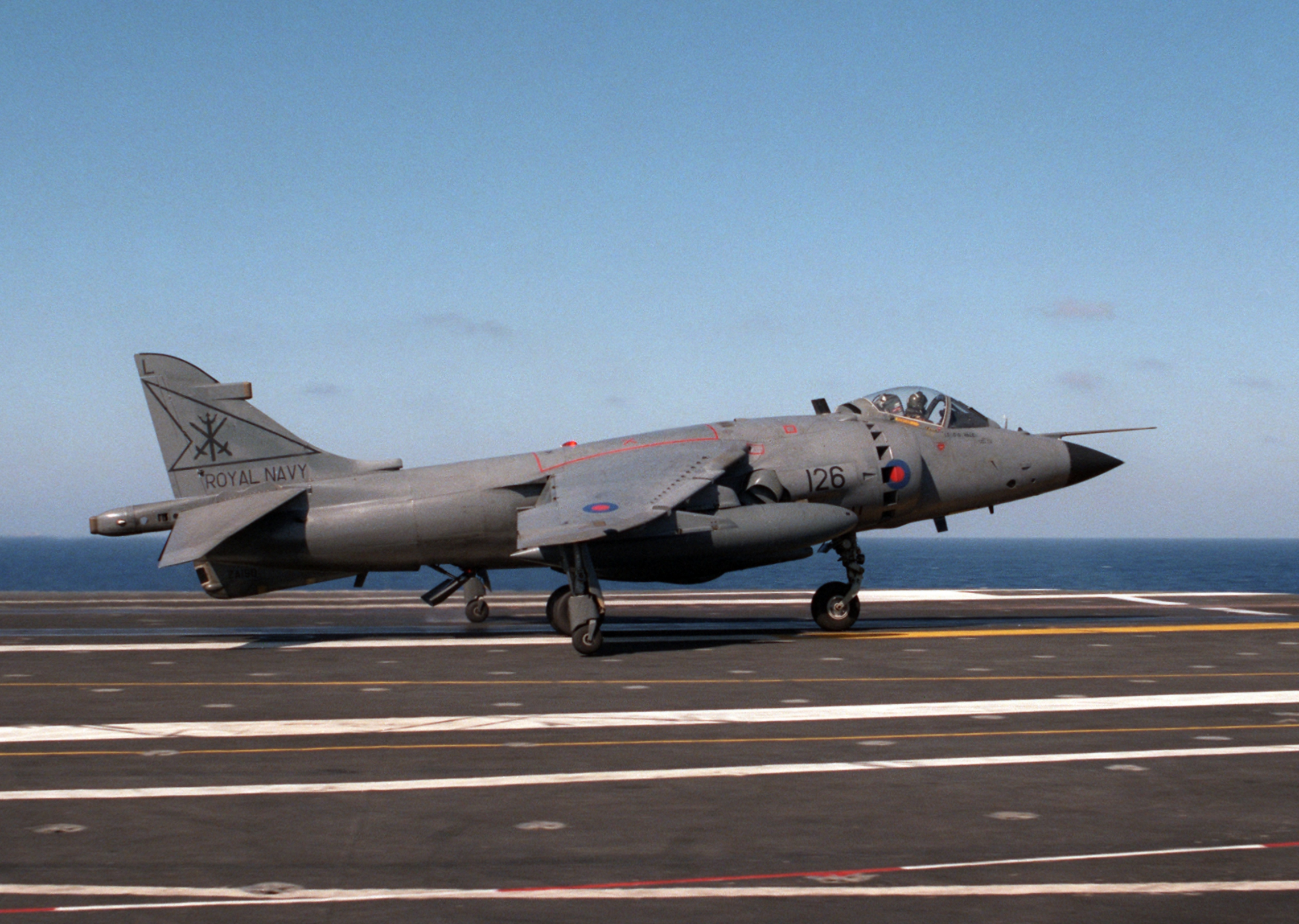 A Royal Navy BAe Sea Harrier FRS1 (s/n ZA190) from No. 800 Naval Air Squadron on HMS Illustrious (R06) taking off from the U.S. Navy aircraft carrier USS Dwight D. Eisenhower (CVN-69) on 22 October 1984.This Sea Harrier was delivered in 1981. Lt. Steve Thomas destroyed two Argentine IAI Daggers (C-404 and C-403 of Grupo 6) with two AIM-9L Sidewinder missiles flying ZA190 on 21 May 1982. It crashed after a bird strike on 15 October 1987, the pilot ejecting safely.